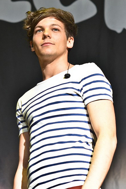 Louis Tomlinson of One Direction, Better With U Tour